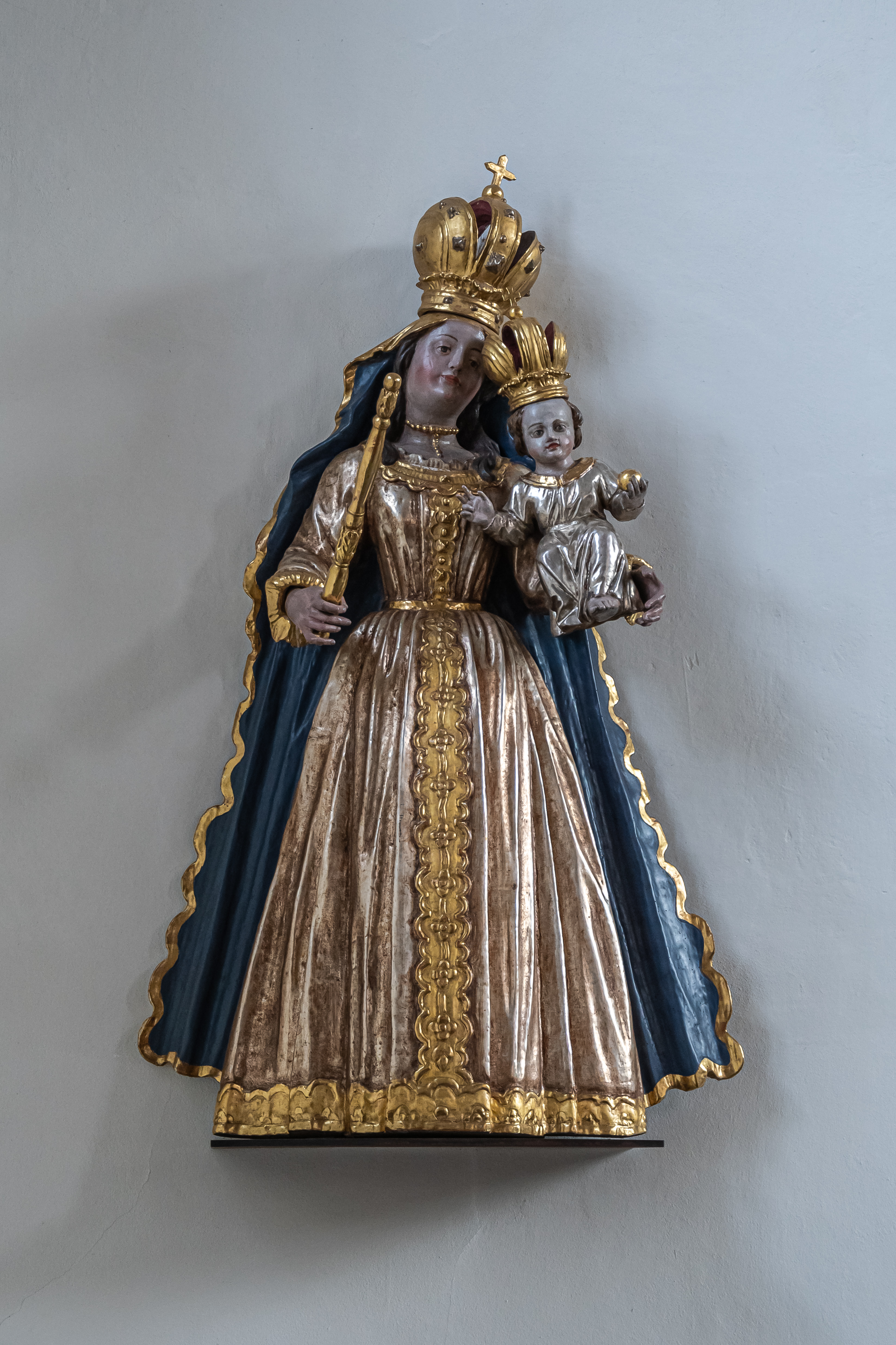 A sculpture of the Madonna with child in the parish church of ternberg, Upper Austria